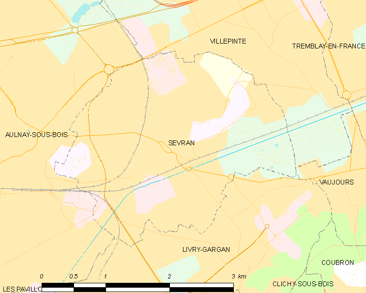 Map of French municipality Sevran